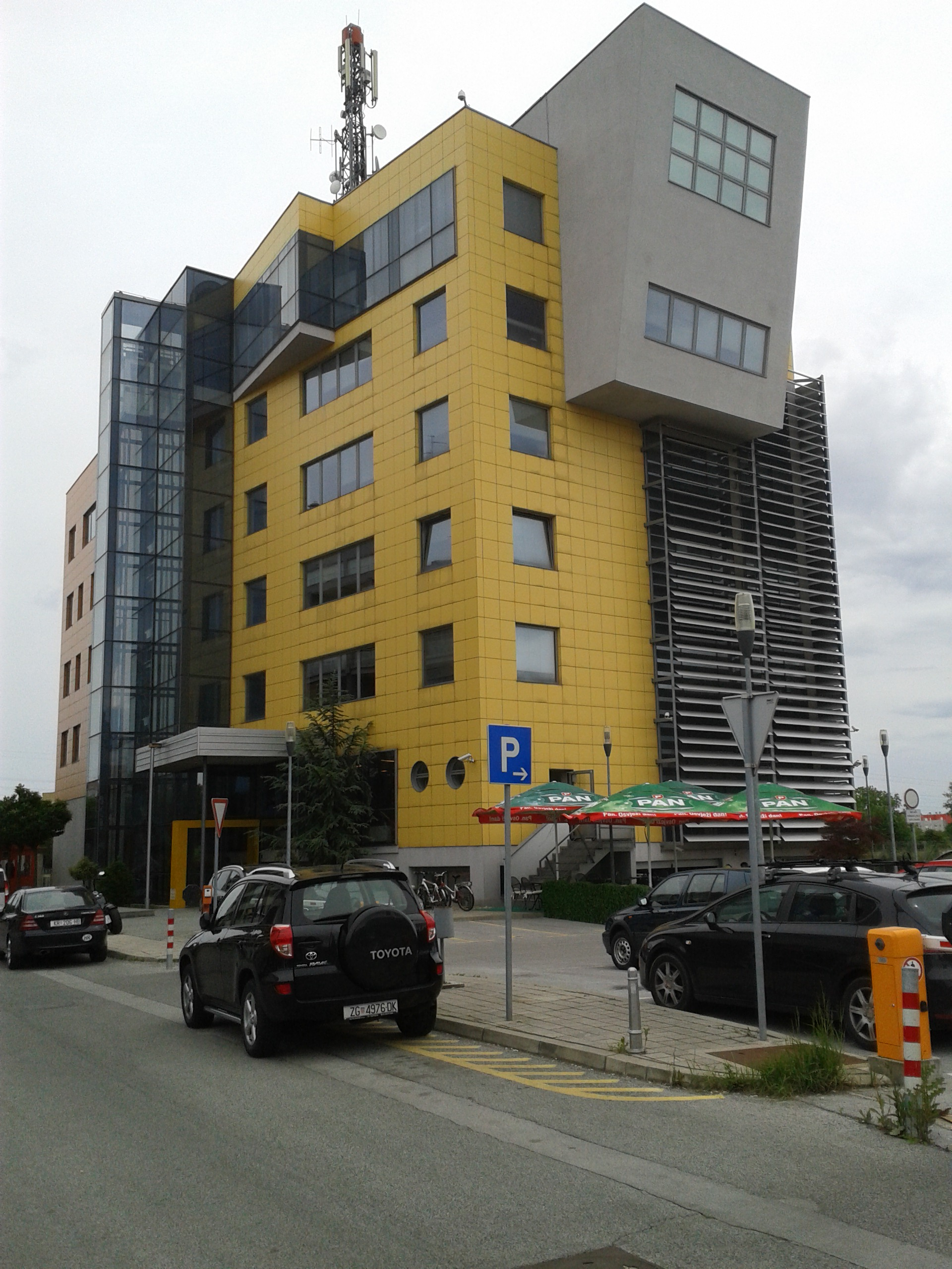 Office building in Većeslav Holjevac Avenue 29, north-west side.